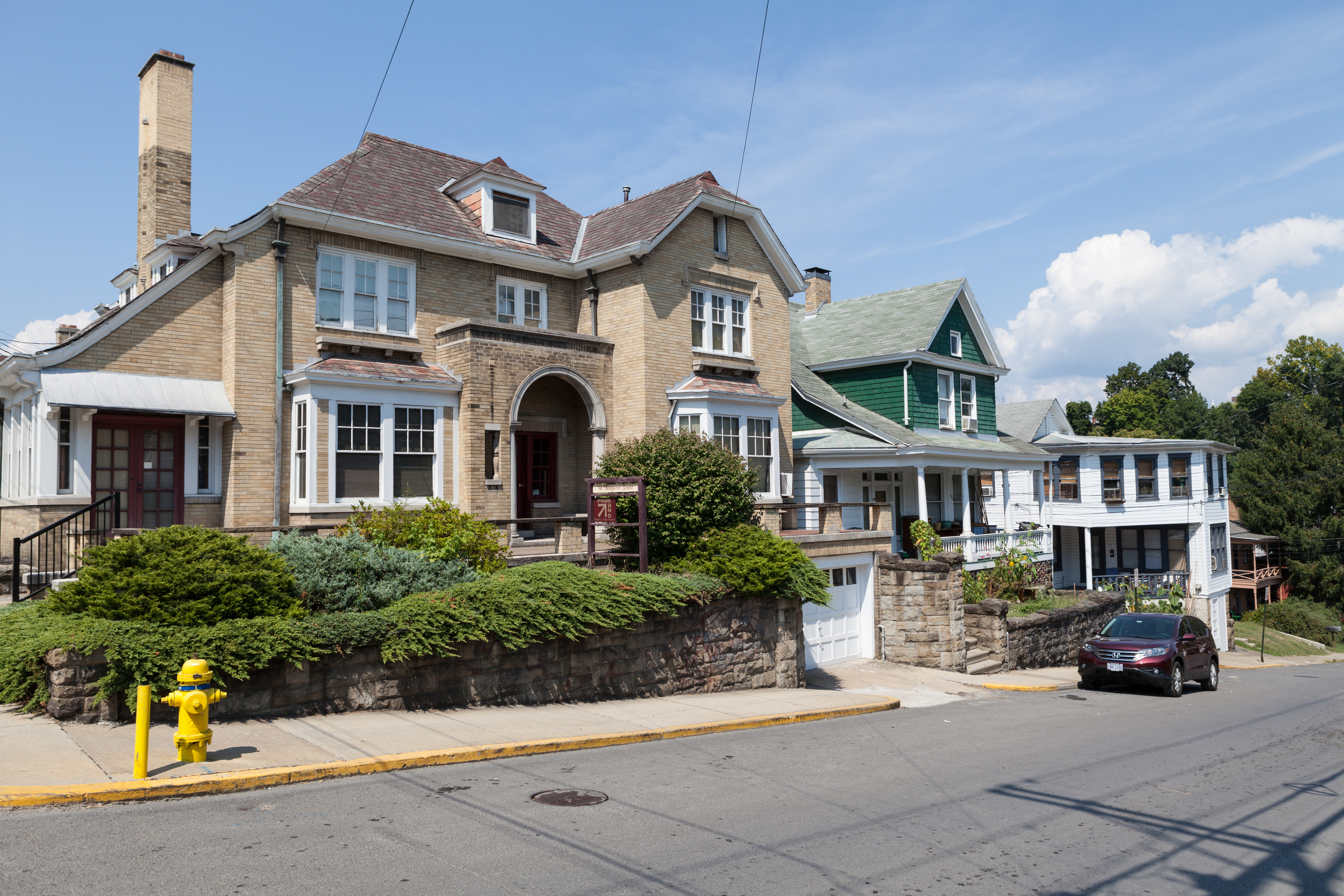 House numbers 74, 70, and 60 Kingwood street, left to right, in the Greenmont Historic District, Morgantown, West Virginia. Number 74 (c. 1925) is the third home of Thoney Pietro, a local stone mason and builder.